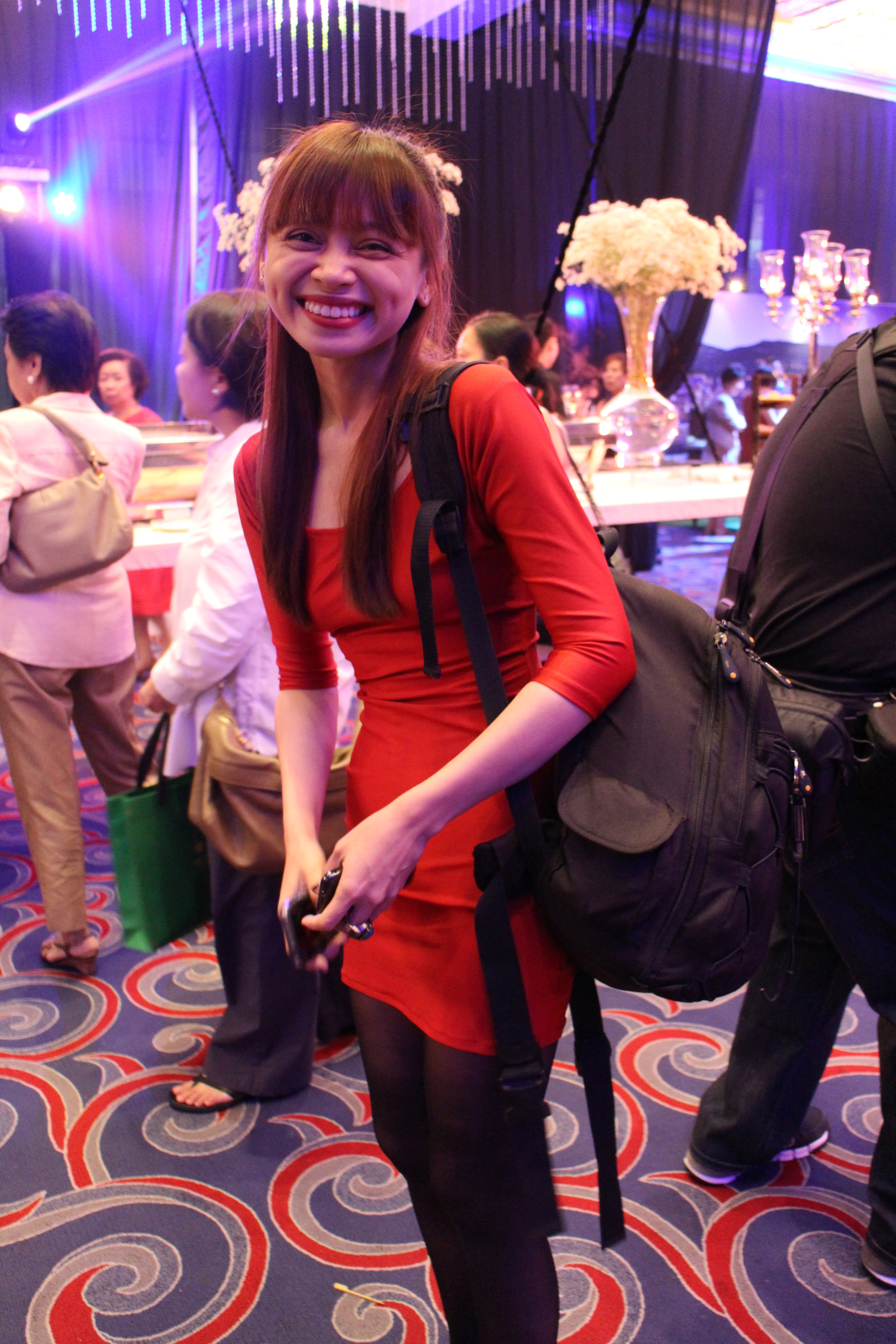 Shaira Luna © Cecile van Straten